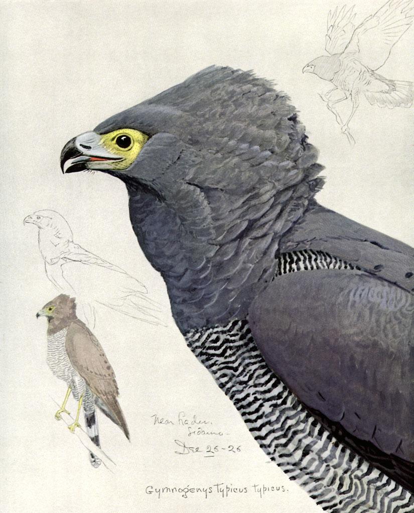 African Harrier-hawk, Polyboroides typus, offset reproduction of watercolor